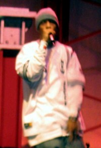 Rapper Redman performingduring the 2004 NBA All-Star Jam Session at the Los Angeles Convention Center. The photograph was taken with a Canon PowerShot A70 camera and edited using ArcSoft PhotoStudio 5.5